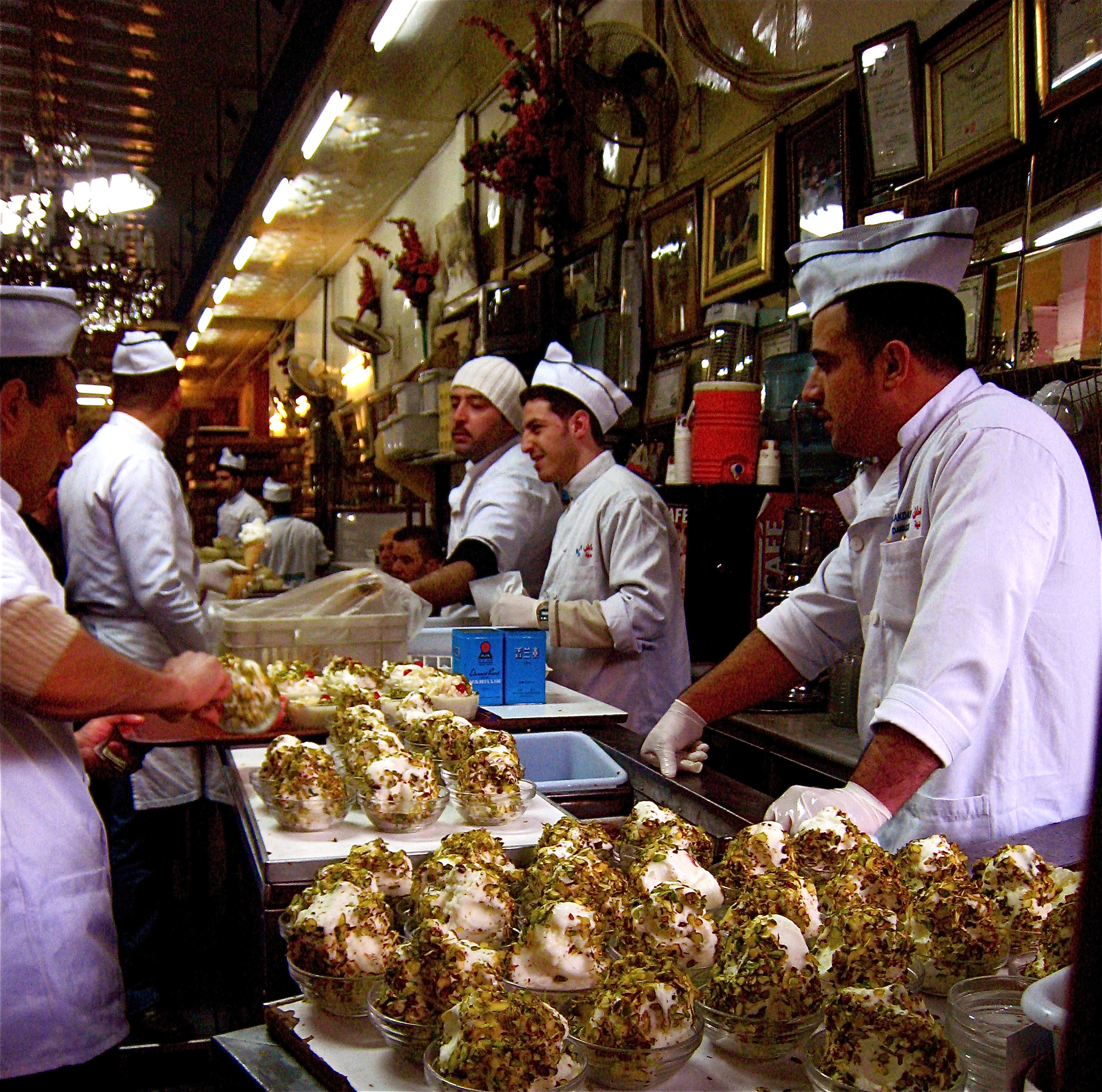 Bakdash ice-cream shop in the old souk in Damascus.